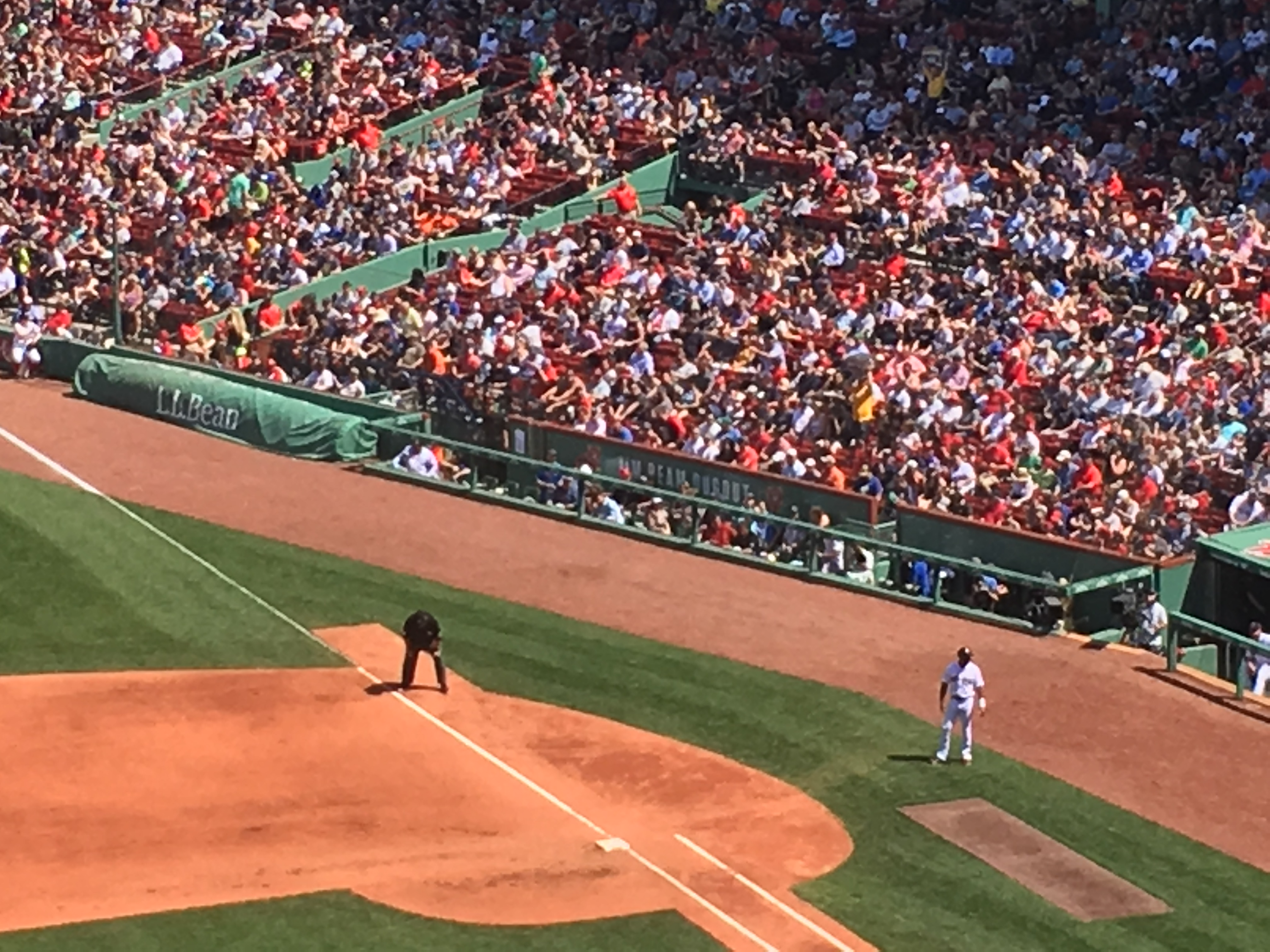 View of the Jim Beam Dugout seating section behind the first base area at Fenway Park in May 2018.